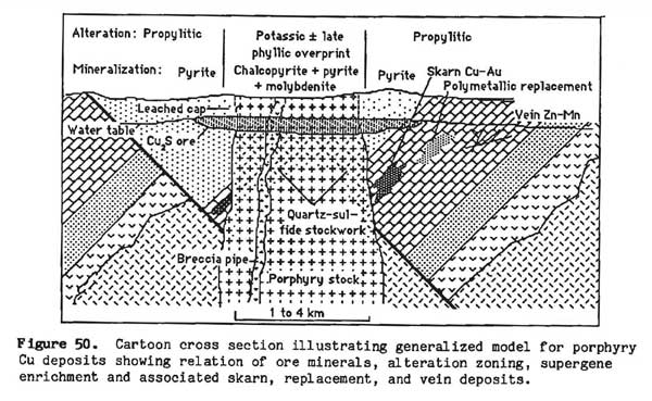 Cross section of a typical porphyry copper deposit.